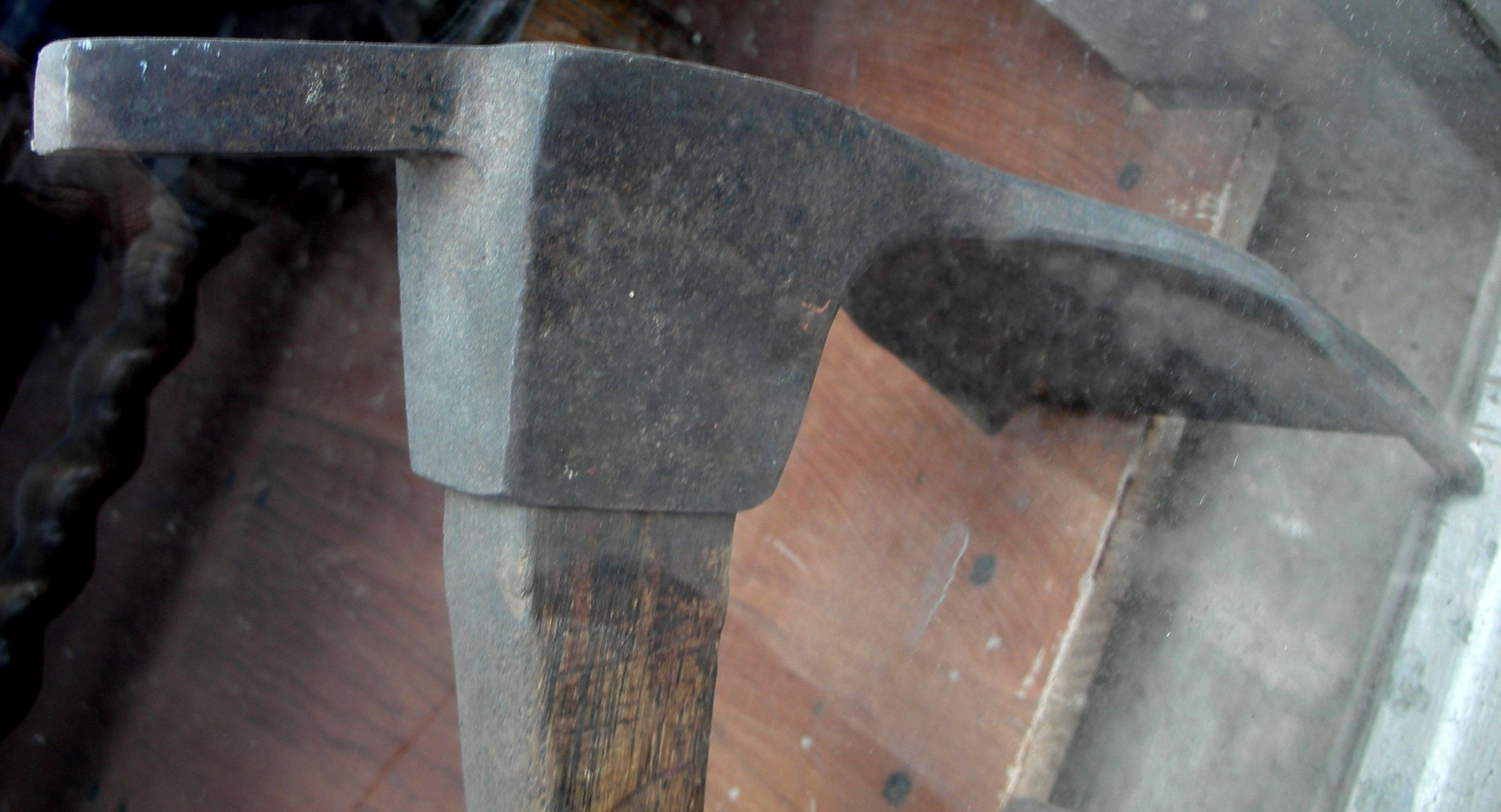 Adze with straight edge and lips.